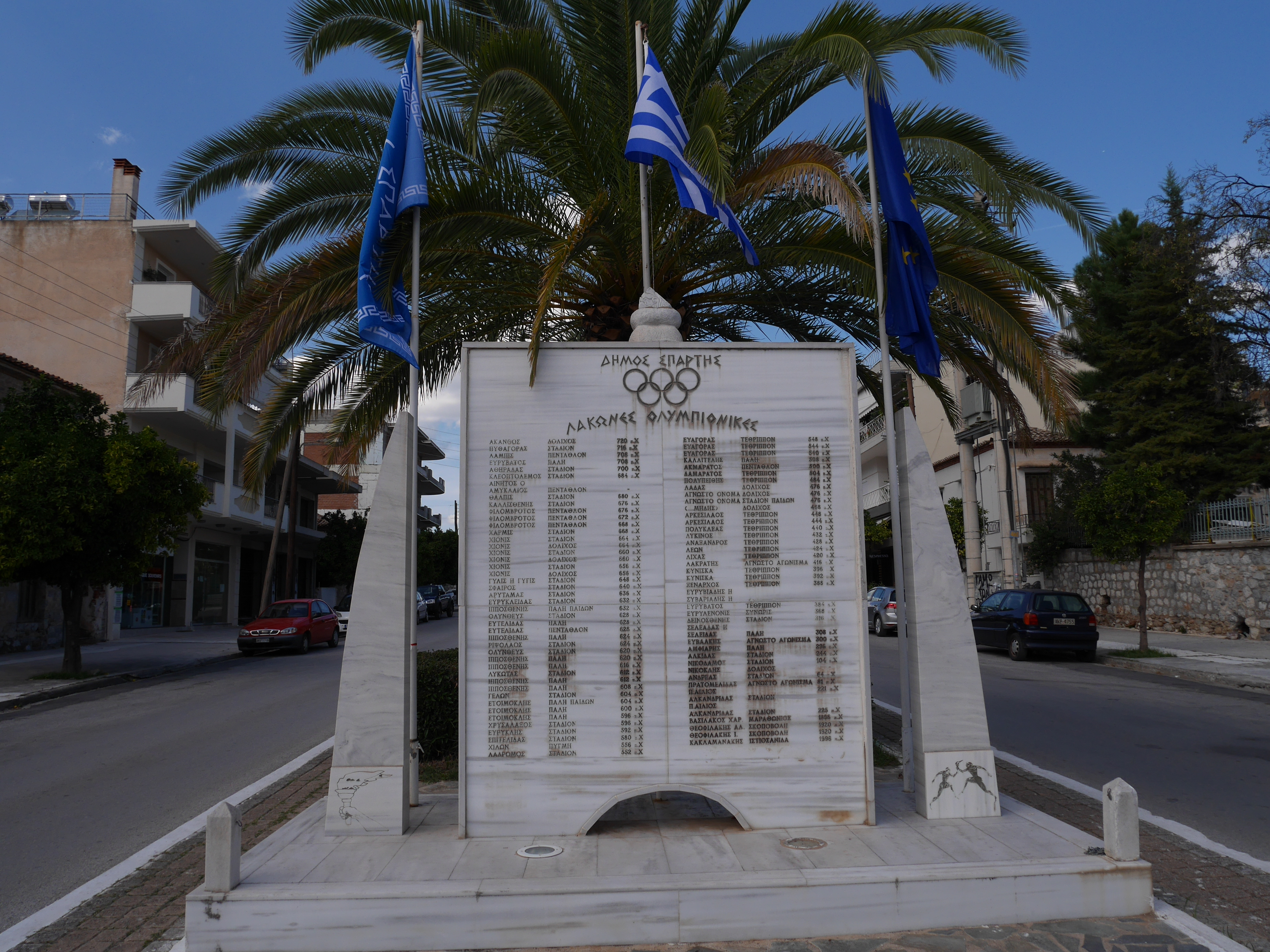 Plaque to olympic athletes of antiquity and present days from Laconia, in Sparta.